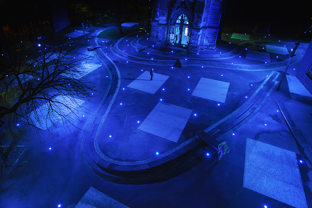 The "Square of the European Promise" by Jochen Gerz in Bochum/Germany, inaugurated in December 2015